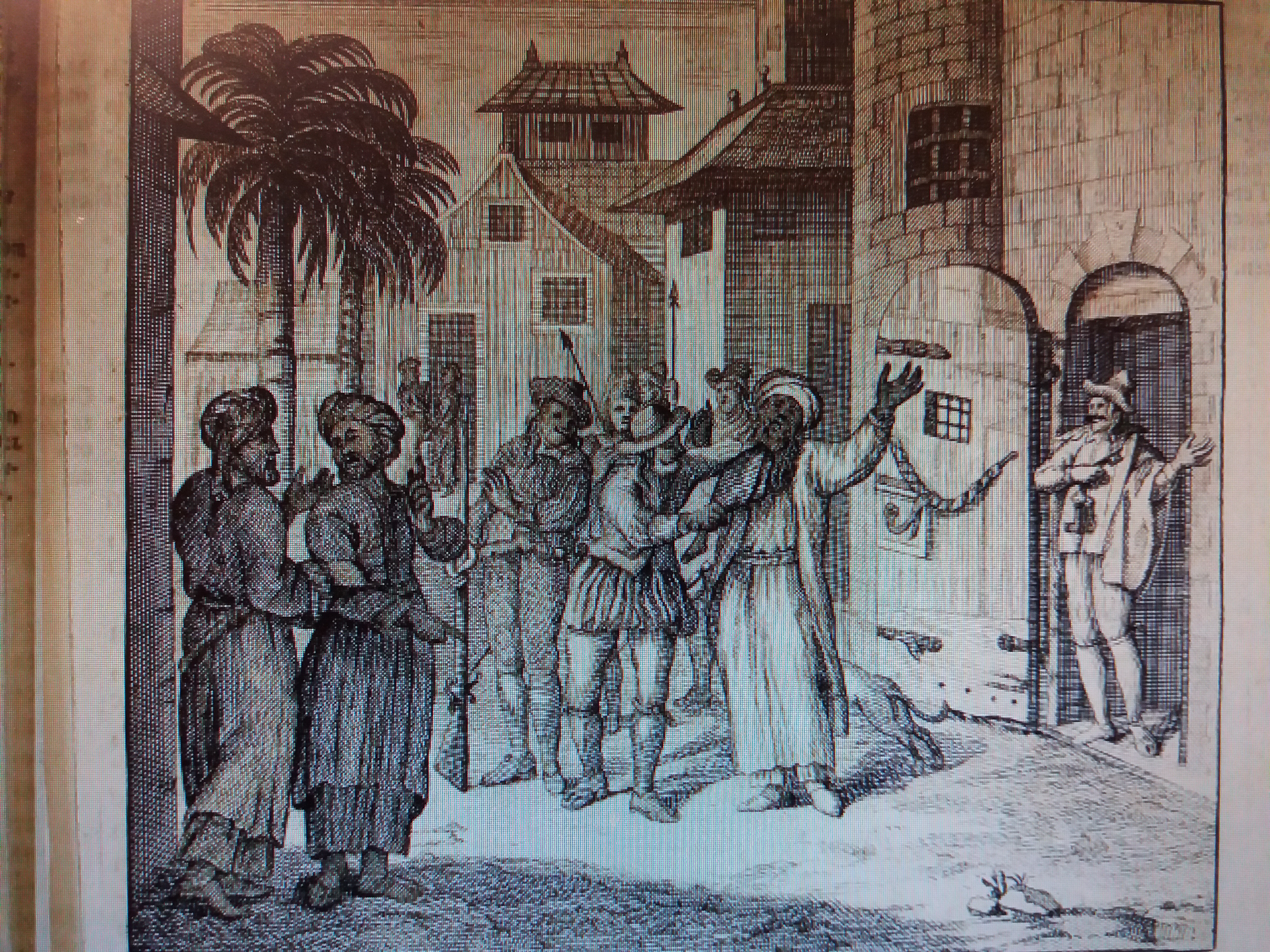 Jorge de Menese's men insult an ulama inTernate by rubbing pork in his face; from Valentijn, Oud en Nieuw Oost-Indien, 1724.